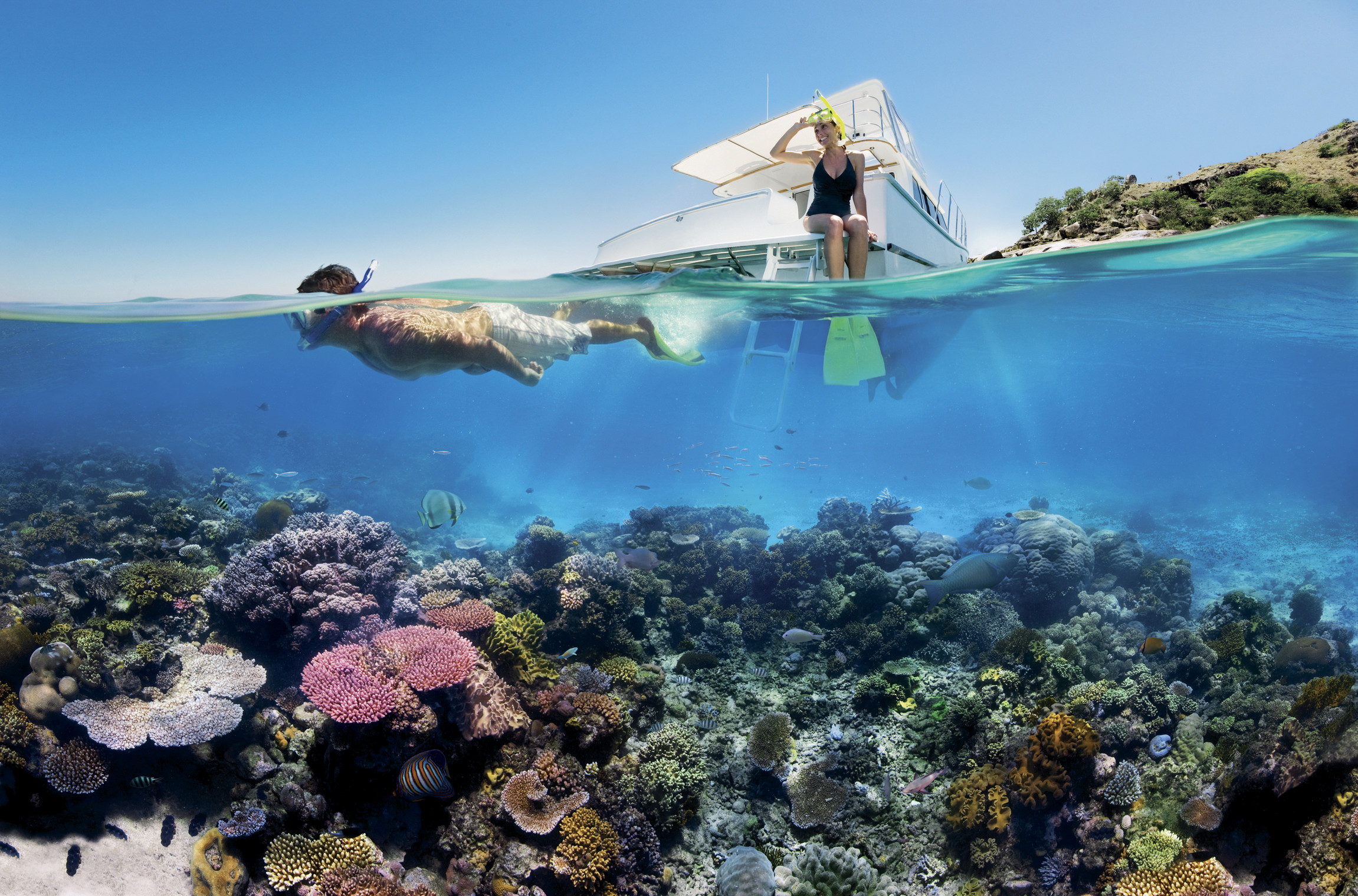 Reef Snorkelling on the Great Barrier Reef. Tropical North Queensland Tourism Queensland October 2008.